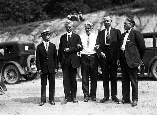 1st International Congress of Soil Science, Washington, DC, 1927. C. Marbut (3) and К. Glinka (4) on excursion.